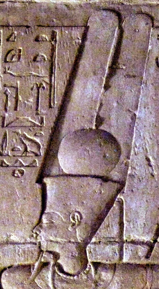 Amun-Ra depicted in a relief in the Place of Truth at Deir el-Medina